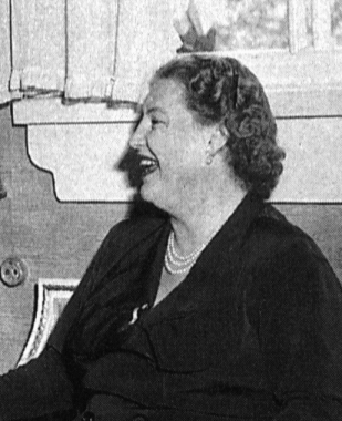 Cropped version of SibeliusAndFlagstad1952.jpg